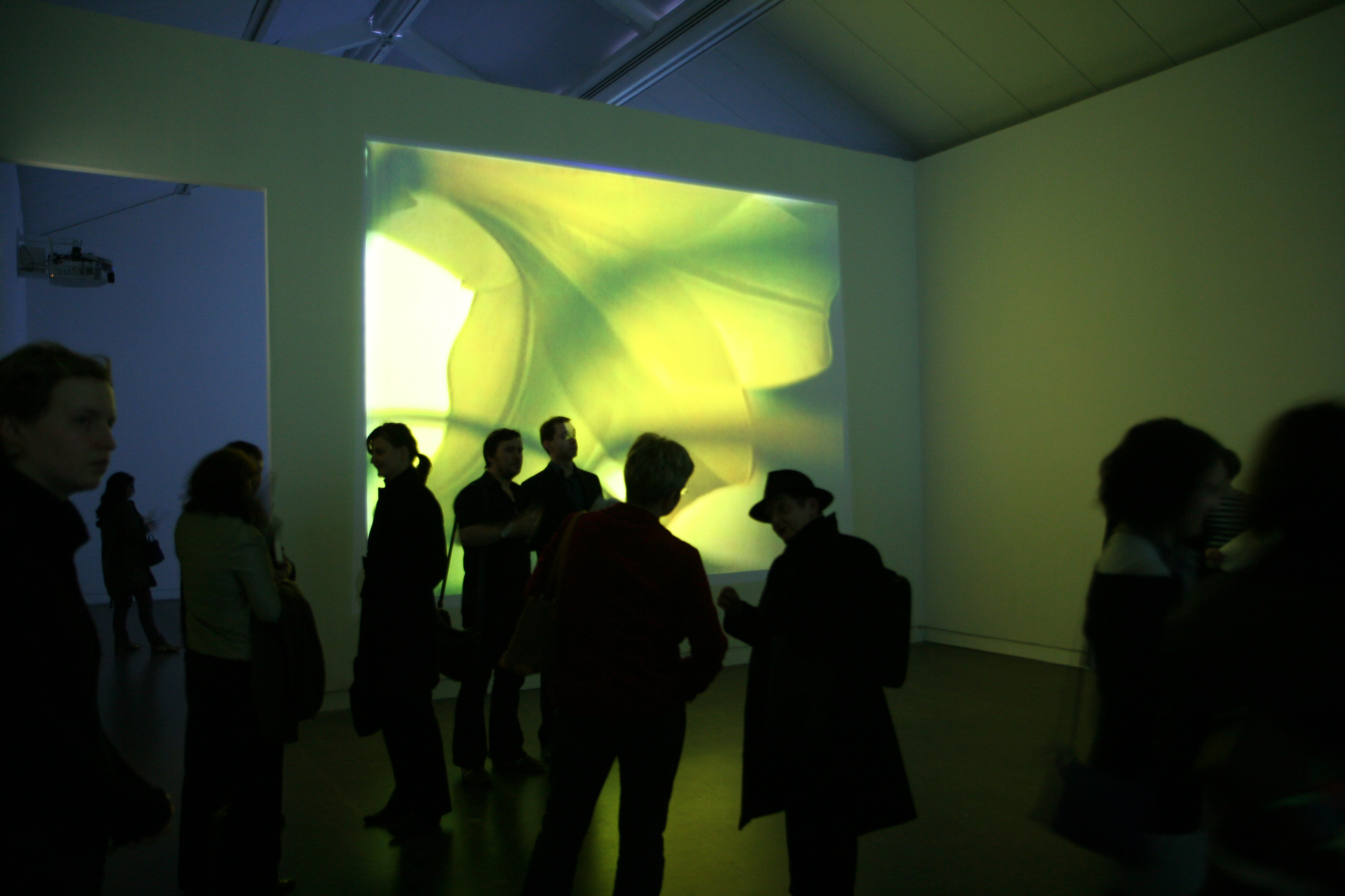 Nan Hoover, FLORA. Video projection at CCA in Glasgow, April 2007. Opening of the exhibition TIMELOOP. Person with hat: Nan Hoover